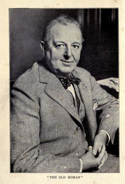 Photo from the book "Commy The Life Story of Charles A. Comiskey" Published in 1918